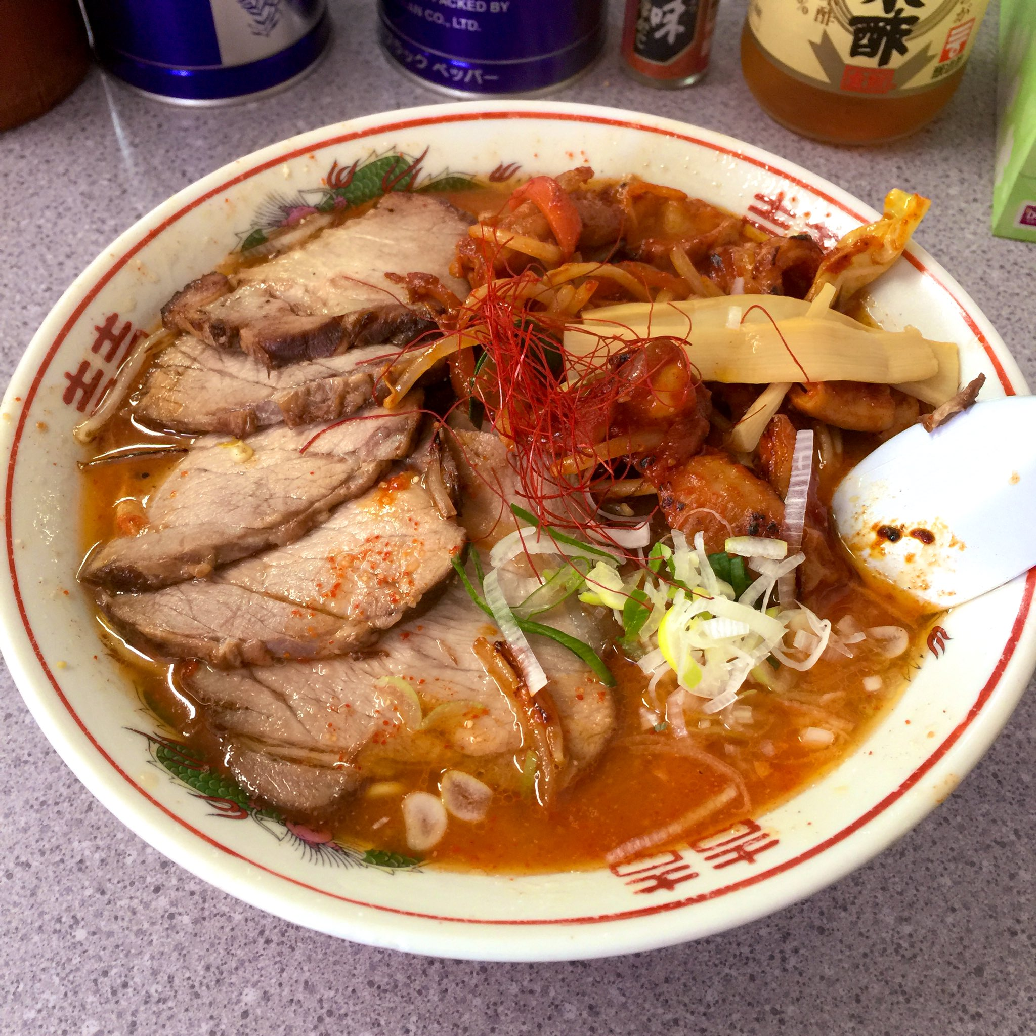 Red Hot Miso Ramen with Grilled innards + Char Siu in Himawari, Asahikawa